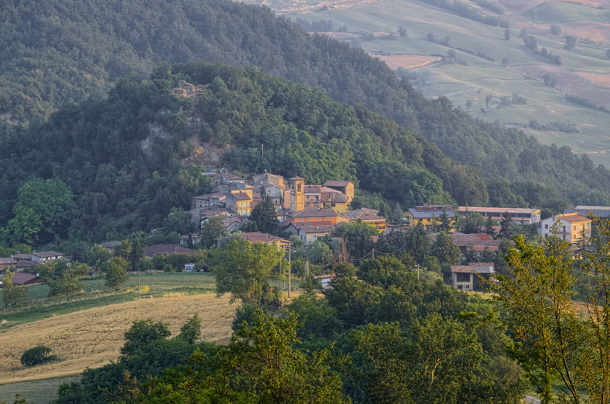 Trebecco